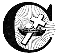 Cross and Crown of Knights Templar (Masonic order).